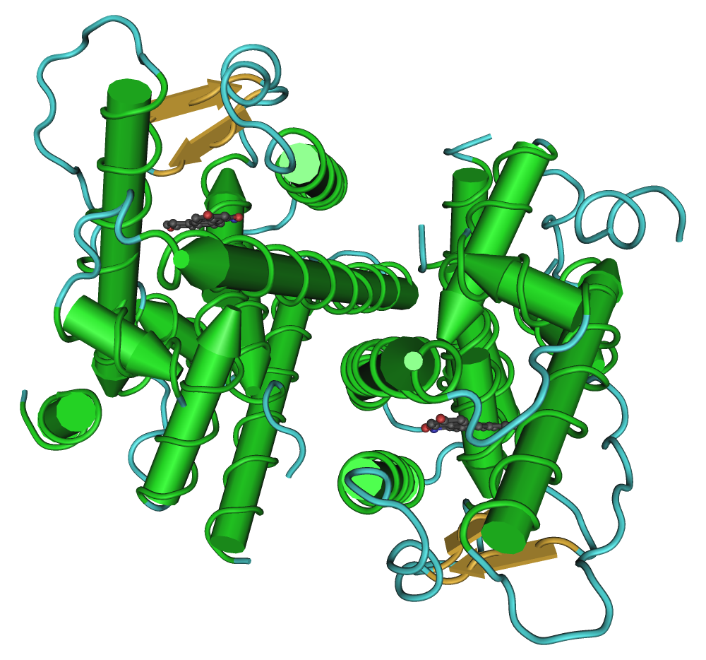 Schematic representation of a dimer of the ligand-binding region of estrogen receptor beta in complex with 3-(6-hydroxynaphthalen-2-yl)-2H-1,2-benzoxazol-6-one. Orientation and style made to match Image:ERbeta.jpg by JWSchmidt. Created with Cn3D ( and GIMP.